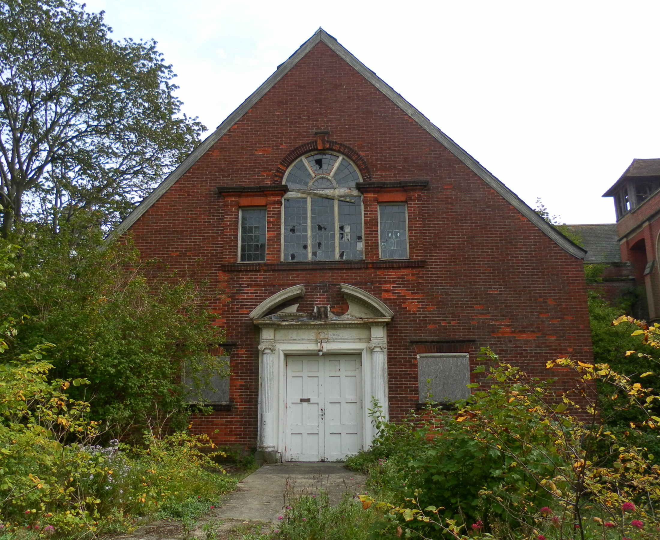 Former church hall of the former St Augustine's Church, Stanford Avenue, Preston Park, City of Brighton and Hove, England. The church was built in 1896 and closed in 2002. The hall, on the north side, dates from 1901.